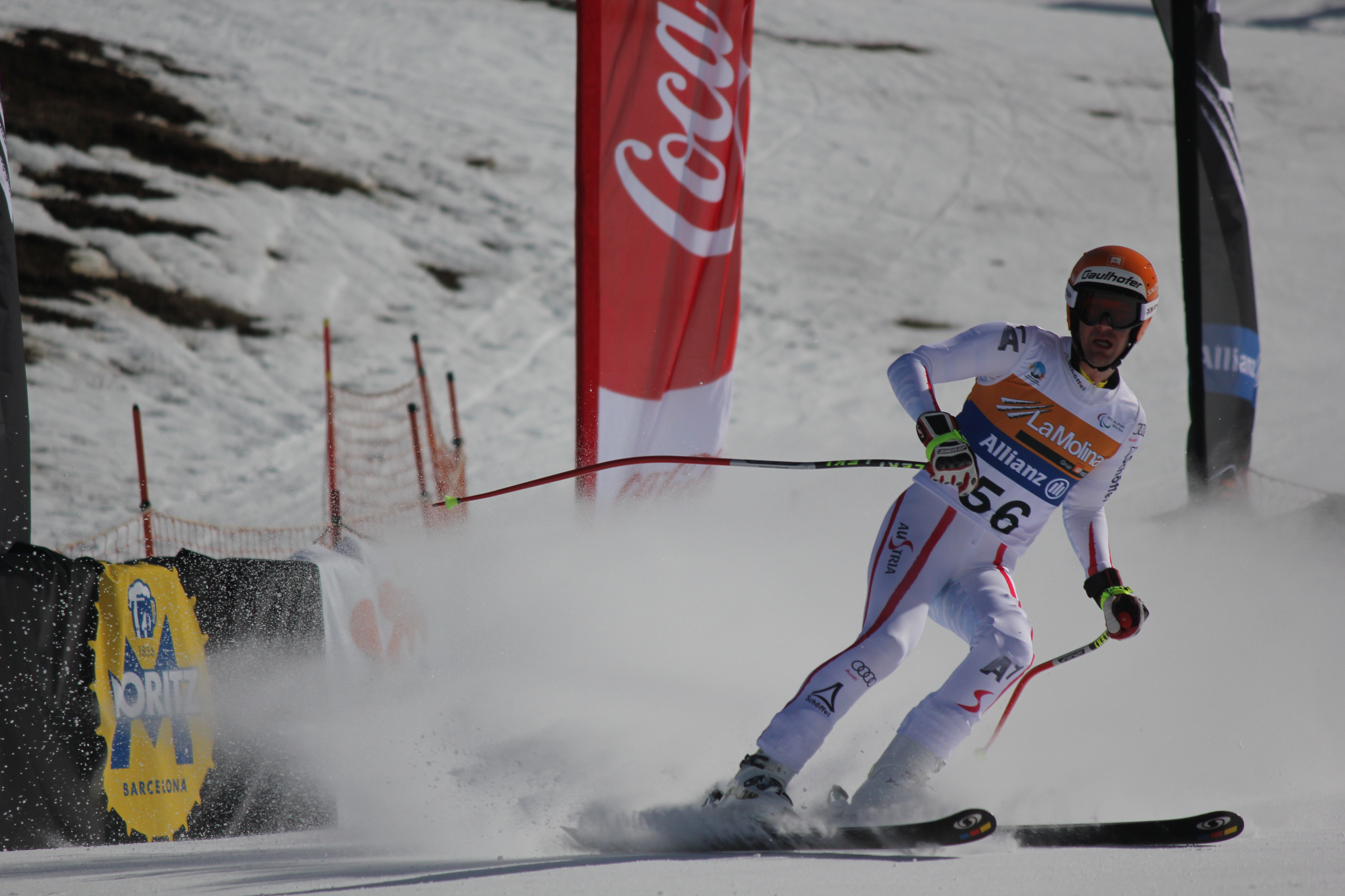 Matthias Lanzinger. 2013 IPC Alpine World Championships at La Molina in Spain. Day 2 of competition. Super-G final.